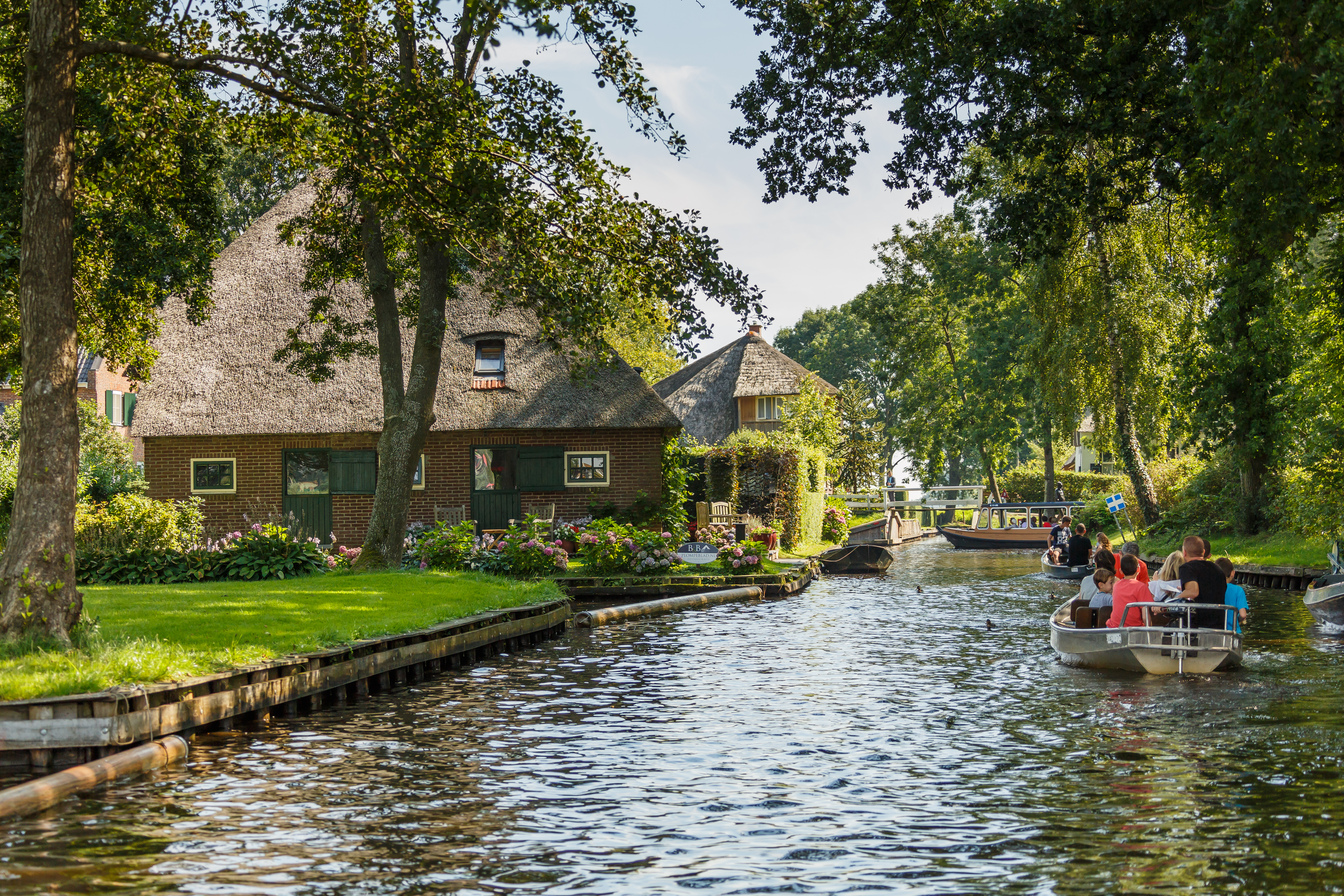 Giethoorn, The Netherlands: Tourists exploring the channels of Giethoorn